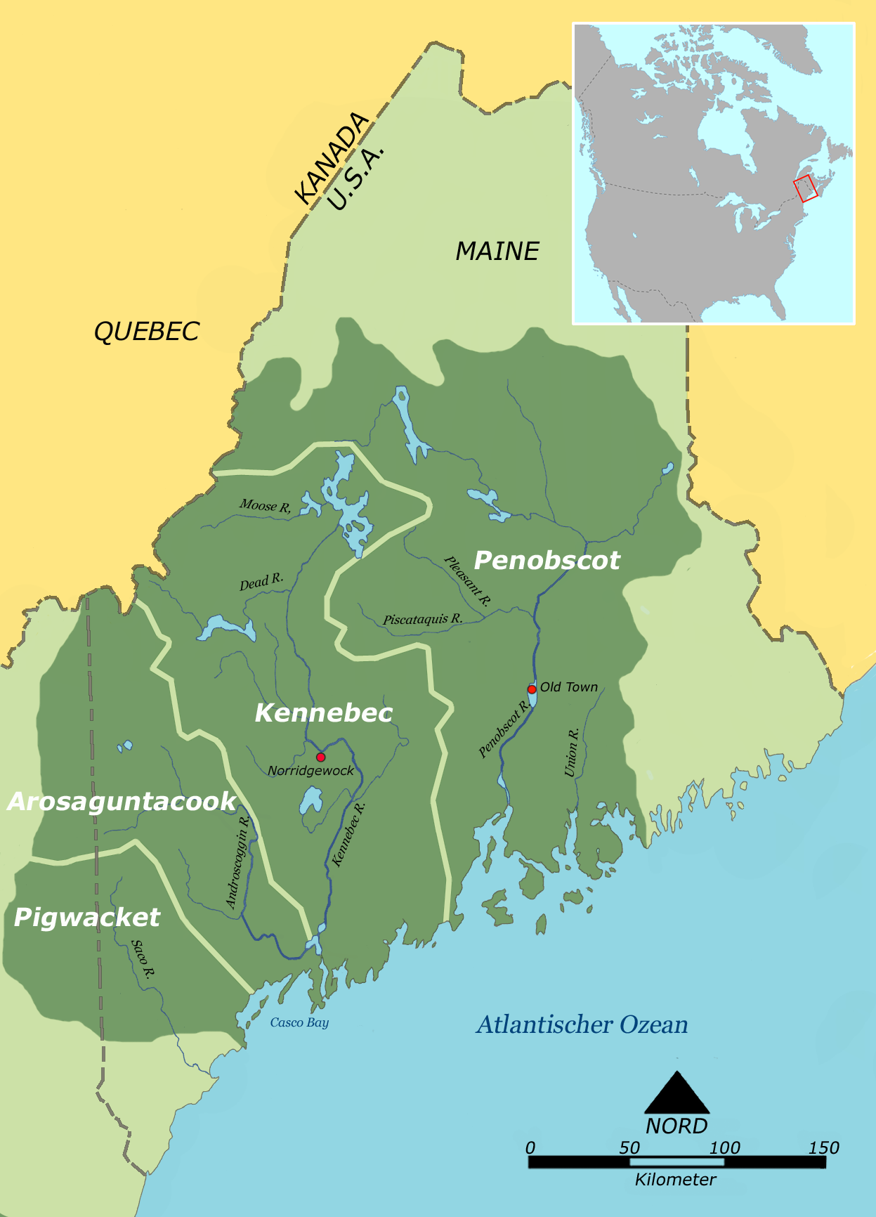 Traditional tribal territories of the Eastern Abenaki